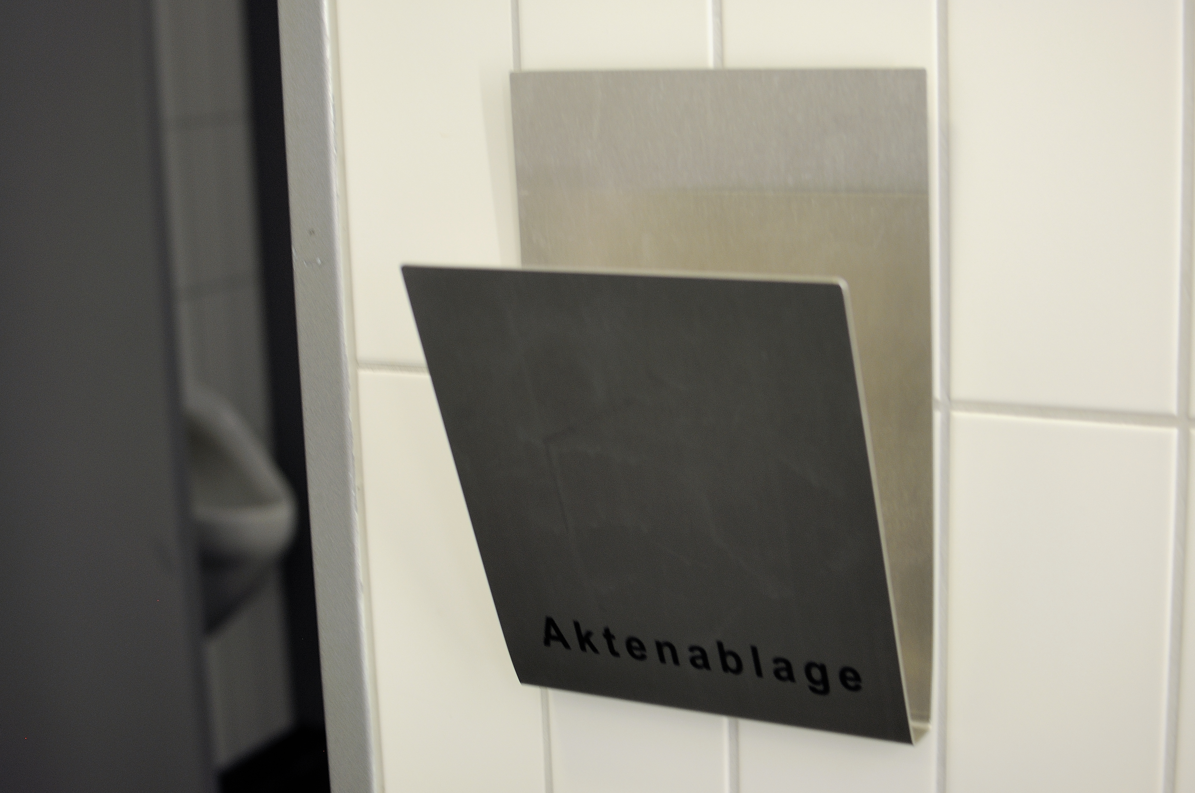 Signing of the coalition agreement for the 18th election period of the Bundestag. Paul-Löbe-Haus.